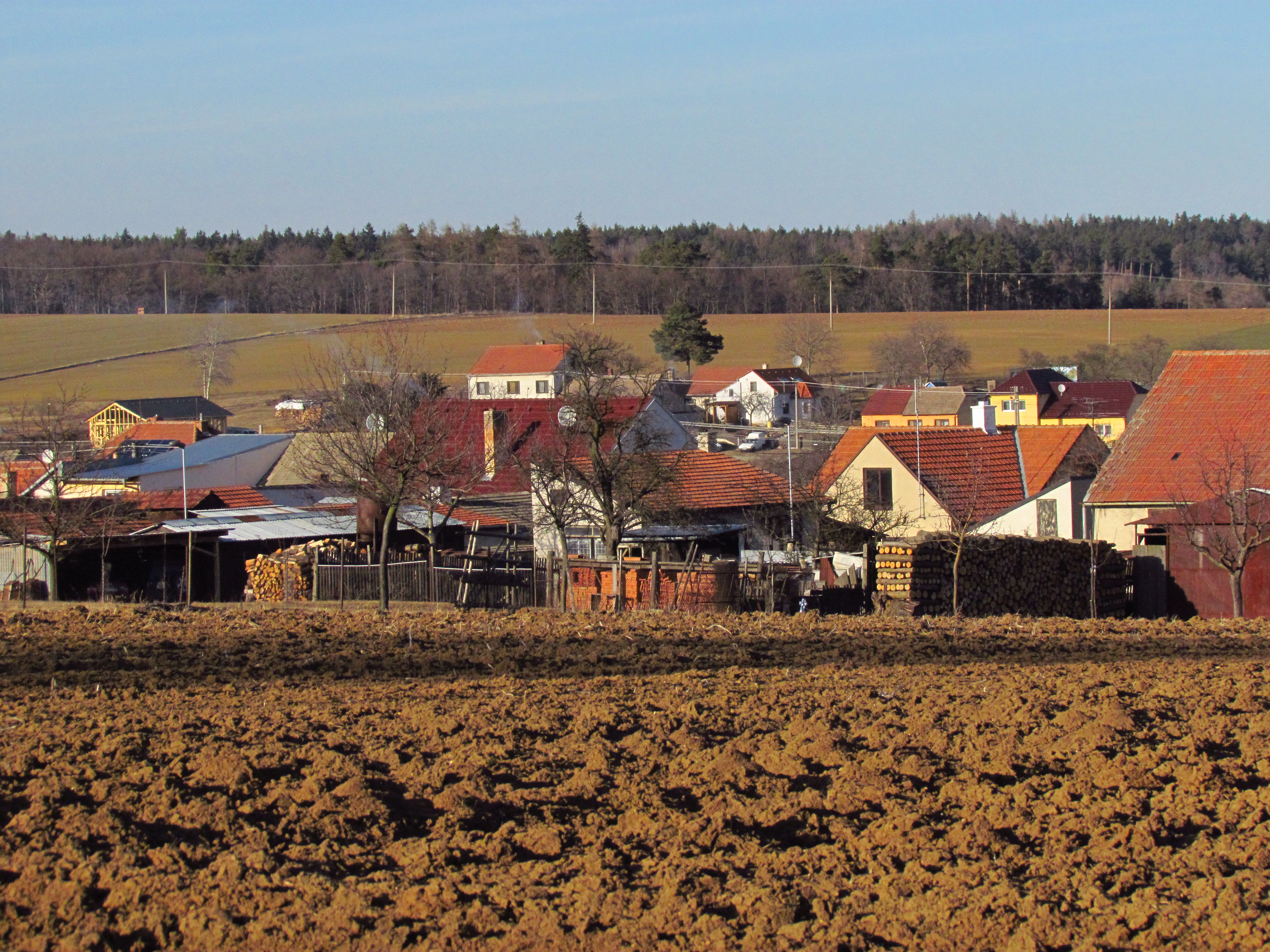 Celkový pohled na Kladeruby nad Oslavou, okr. Třebíč.